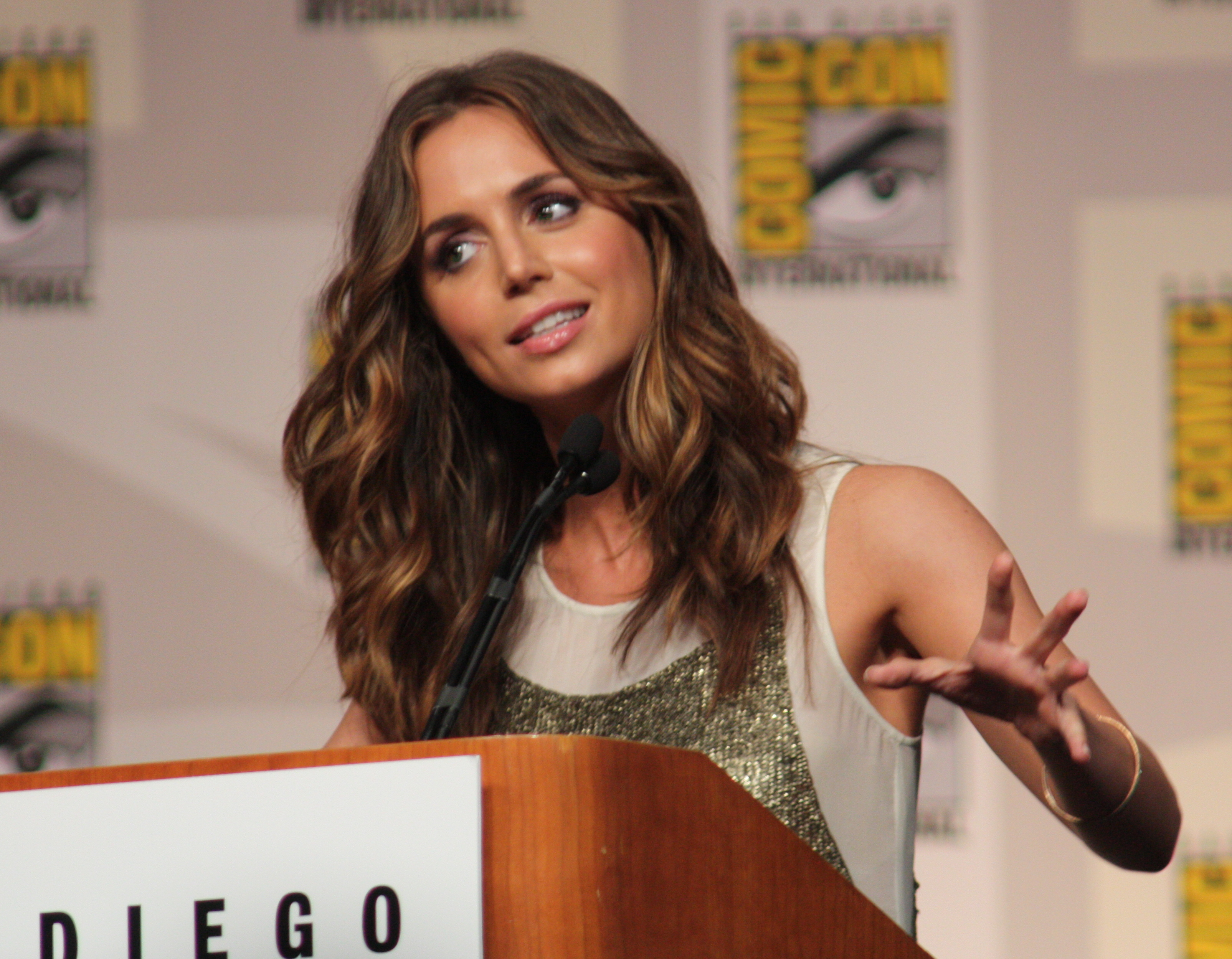 Eliza Dushku at the 2009 Comic Con in San Diego